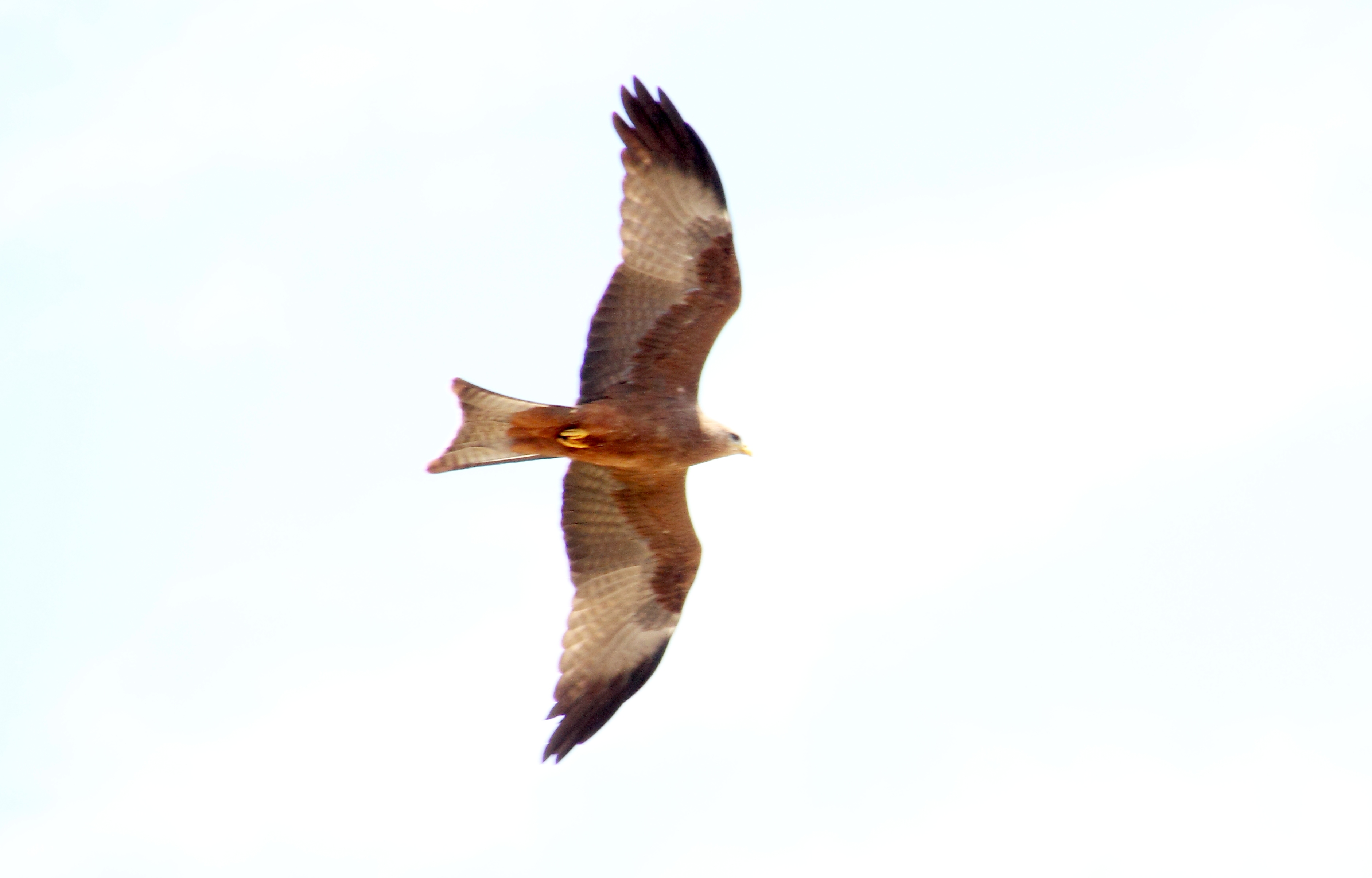 also called Yellow-billed Kite